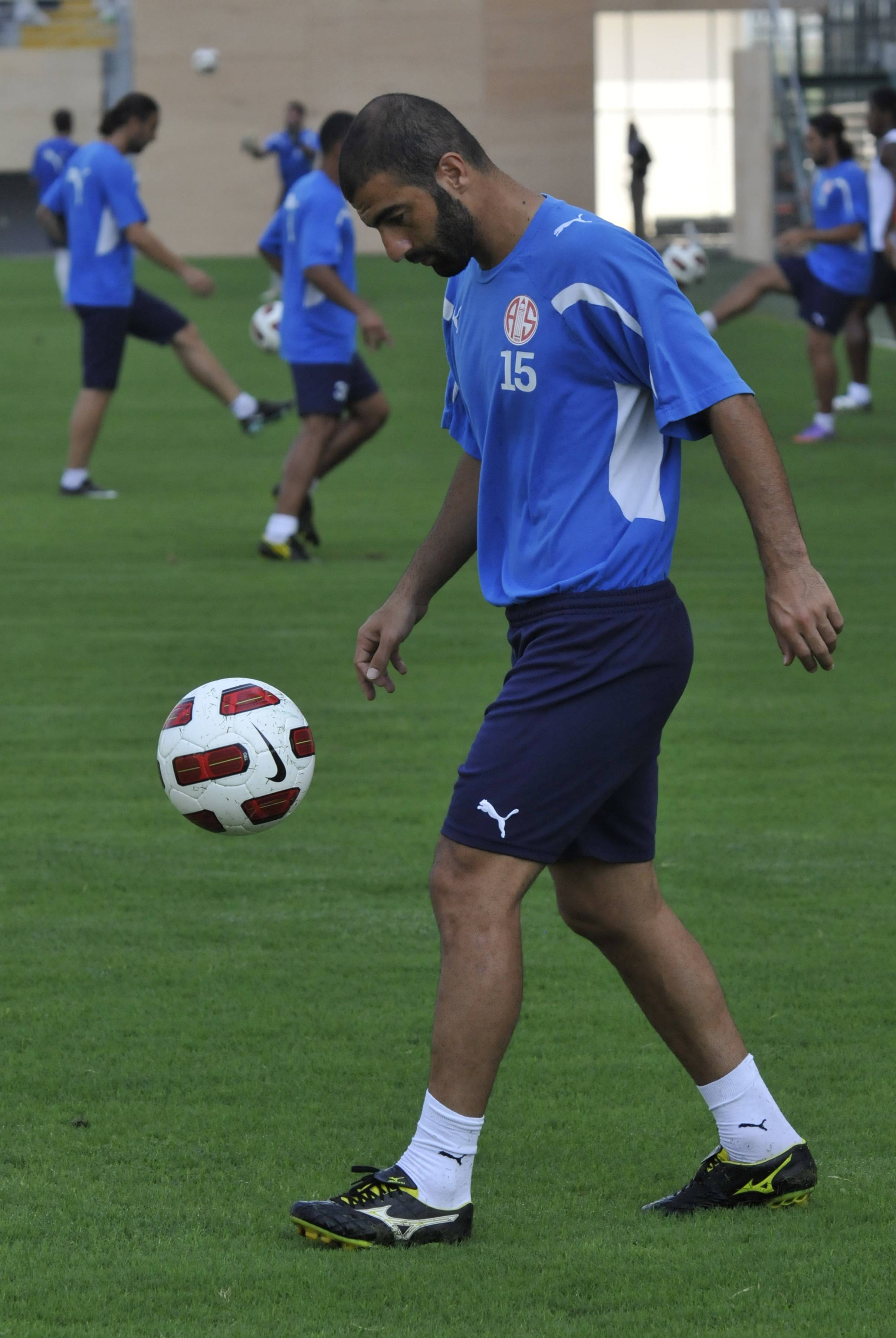 Photo : Murat Özgen